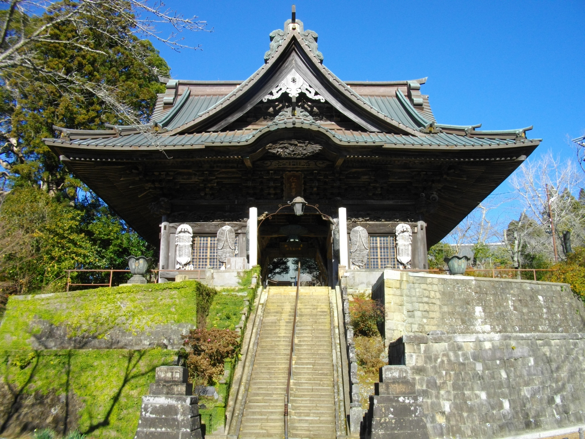 Kannonkyo-ji Nio-mon